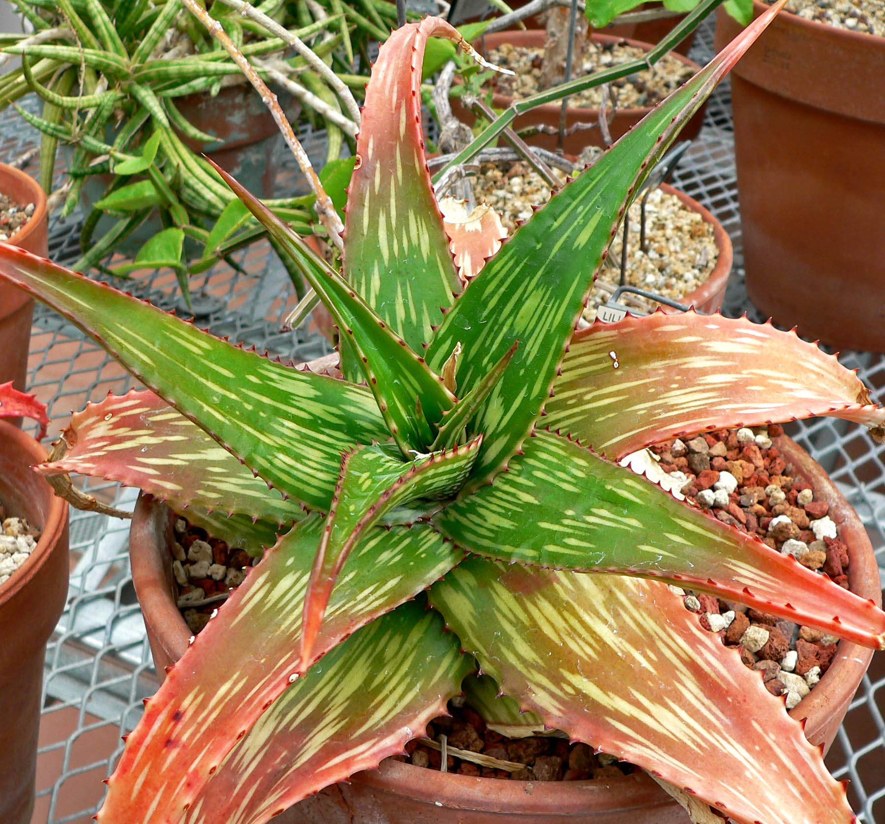 Photo of Aloe somaliensis at the University of California Botanical Garden